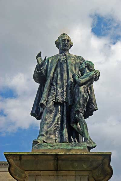 Statue of James Nugent in St John's Gardens Liverpool